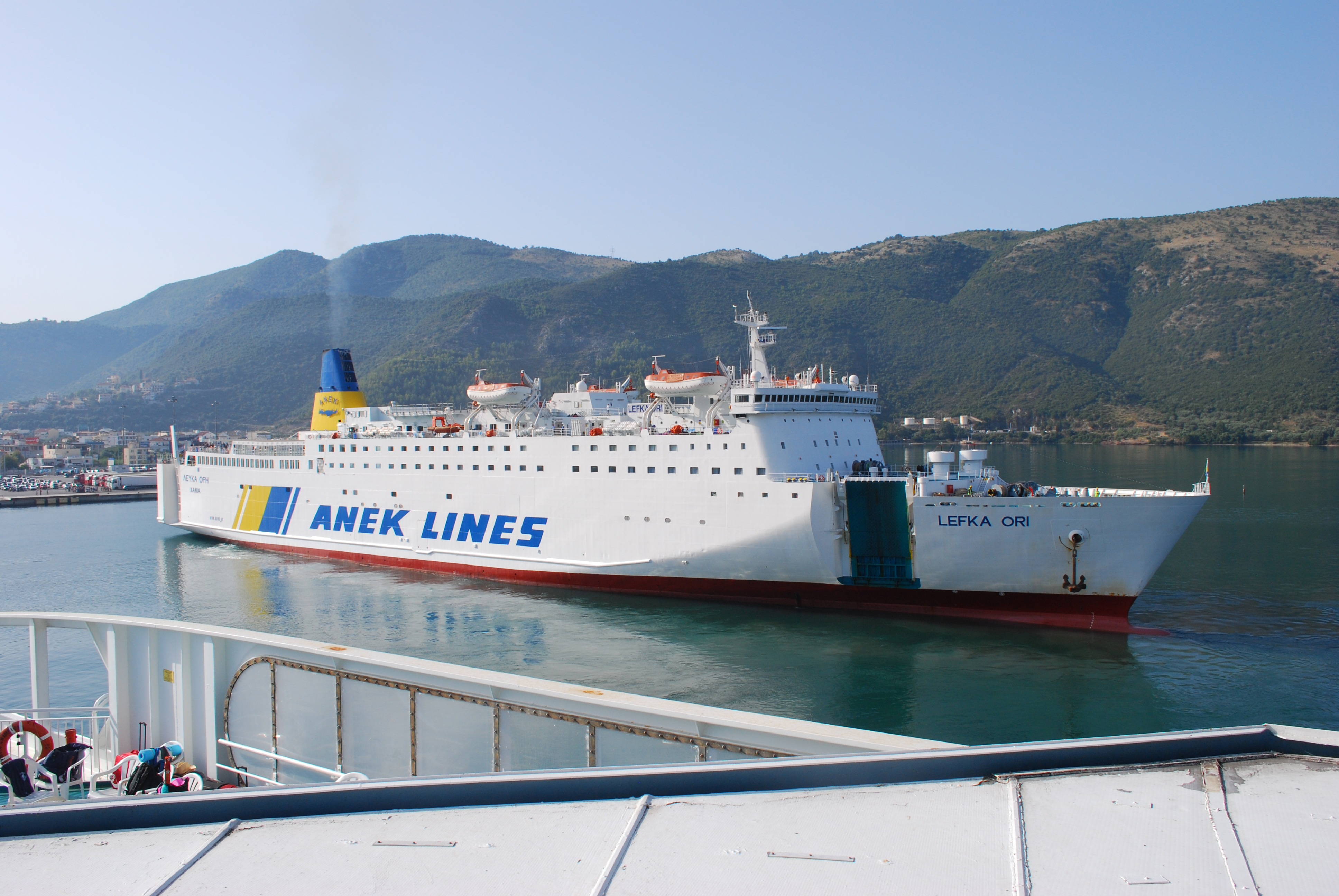 "Lefka Ori" of ANEK Lines in Igoumenitsa Harbour.